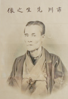 This is a portrait of Seiryu Ichikawa, who is a Japanese public servant. He created a Japanese word "Hakubutsukan", which means "museum".